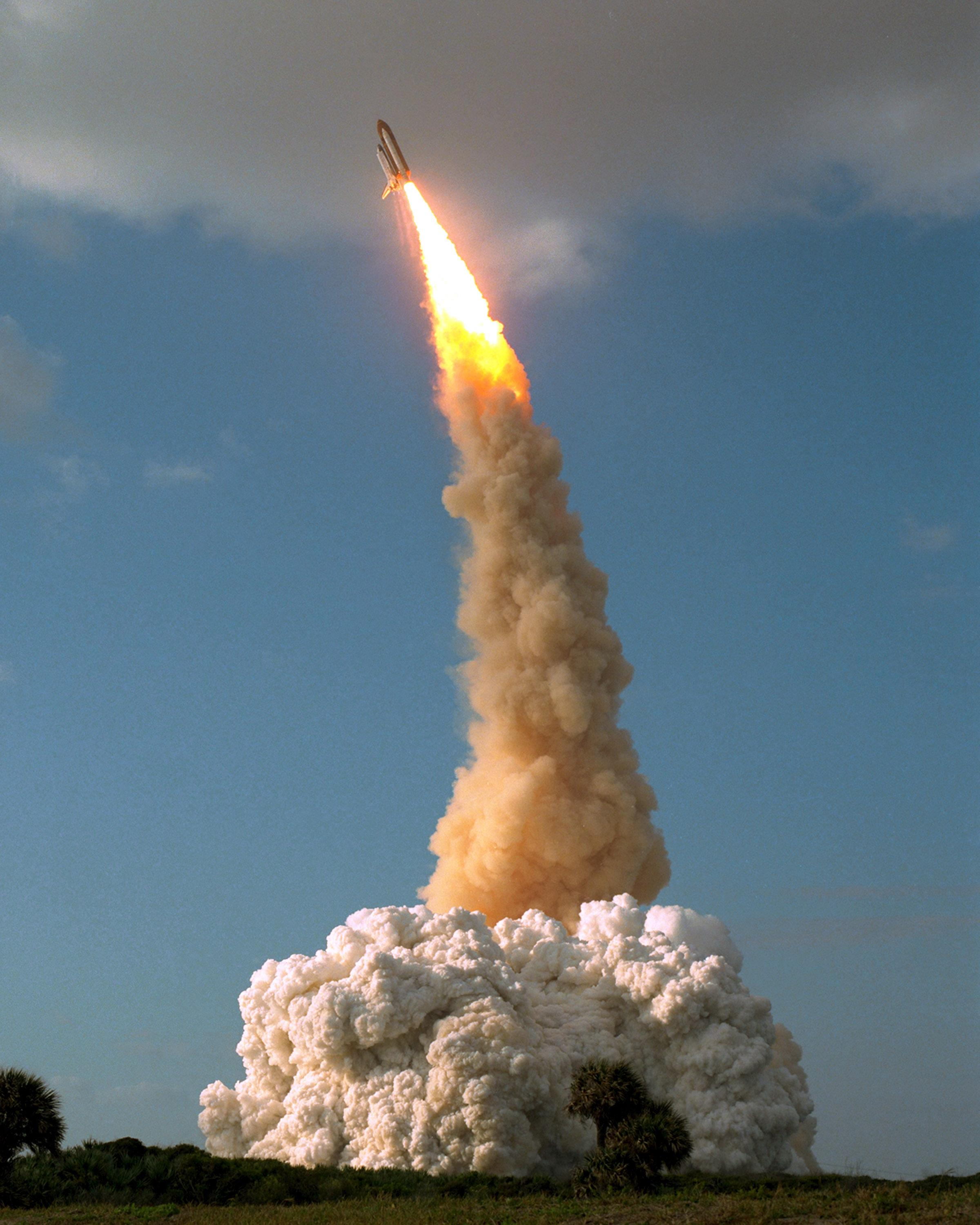 KENNEDY SPACE CENTER, FLA. -- The Space Shuttle Discovery lifts off from Pad 39-B at 8:33 a.m. EDT carrying a crew of five and the Hubble Space Telescope. STS-31 crew members are Commander Loren Shriver, Pilot Charles Bolden and Mission Specialists Steven Hawley, Bruce McCandless II and Kathryn Sullivan.